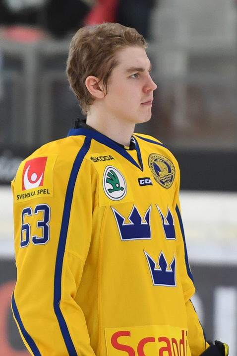 6/4/2017, Vienna, Austria, Sport, Ice Hockey, Friendly match Austria vs Sweden.